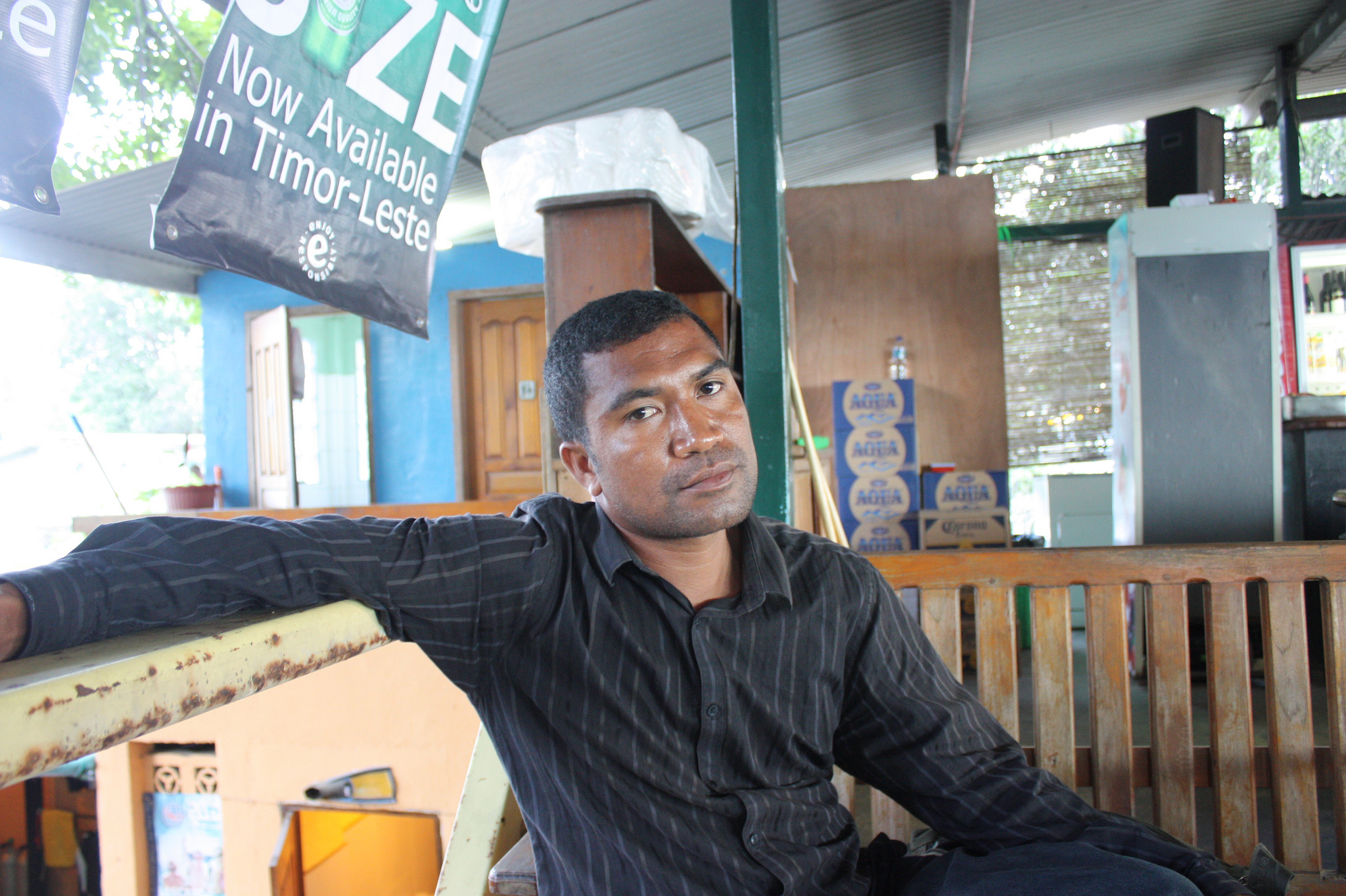 Ozorio Leque (Osorio Mau Leki) leader of Colimau 2000 and former secretary general of PDRT during an interview in July 2012, Dili.